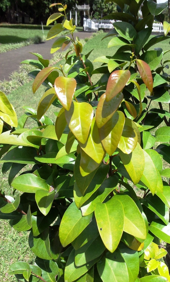 Securinega durissima - Endemic mascarene tree - Mauritius